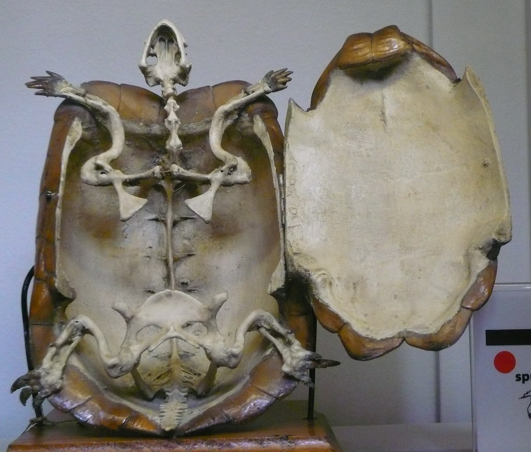 Testudo hermanni skeleton at Museu de Zoologia in Barcelona